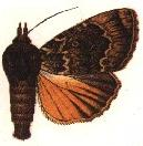 PLATE CVIII.